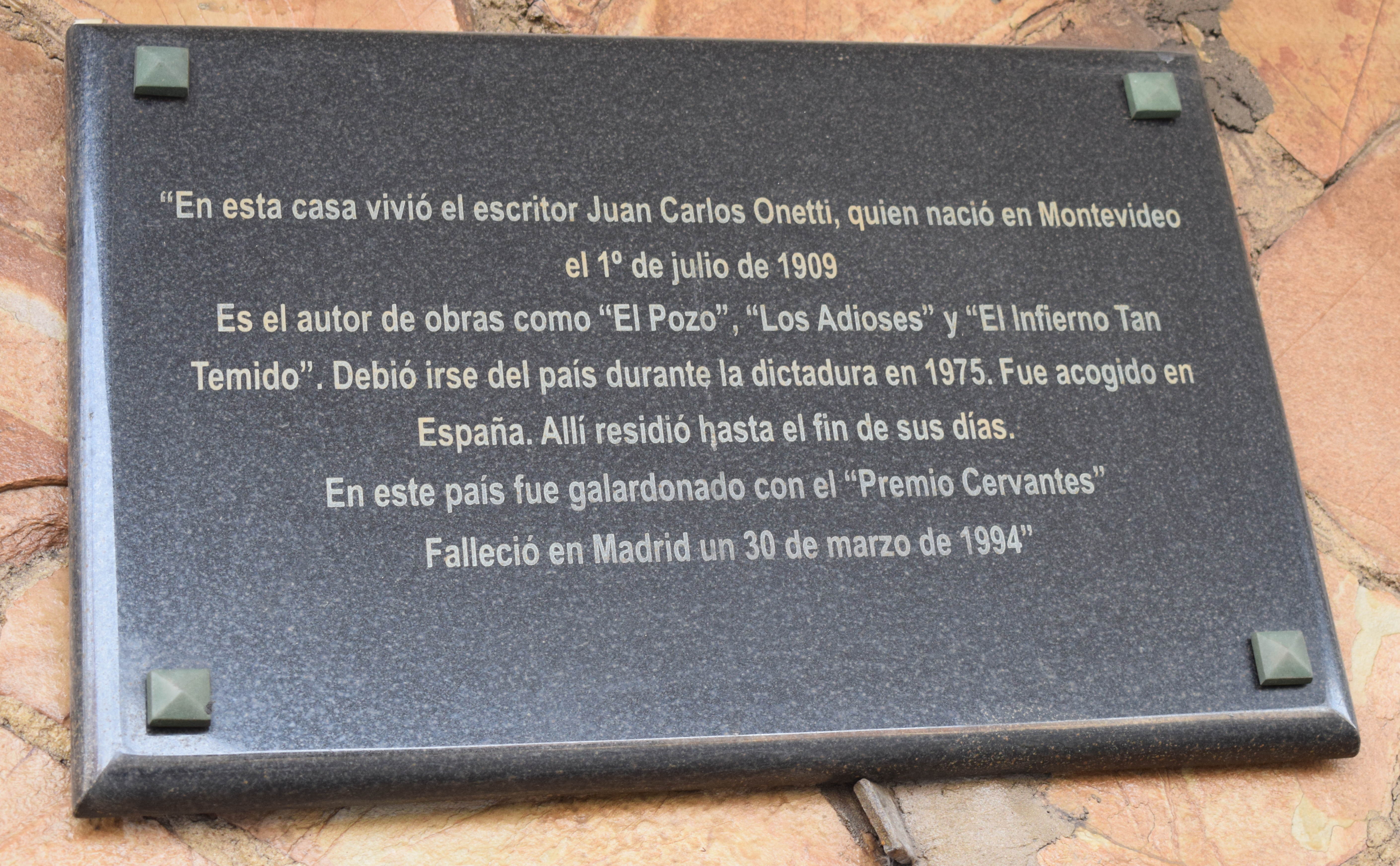 Commemorative plaque at the Onetti's house in Montevideo, where he lived until 1975